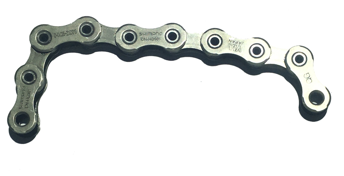 The top line Shimano chain